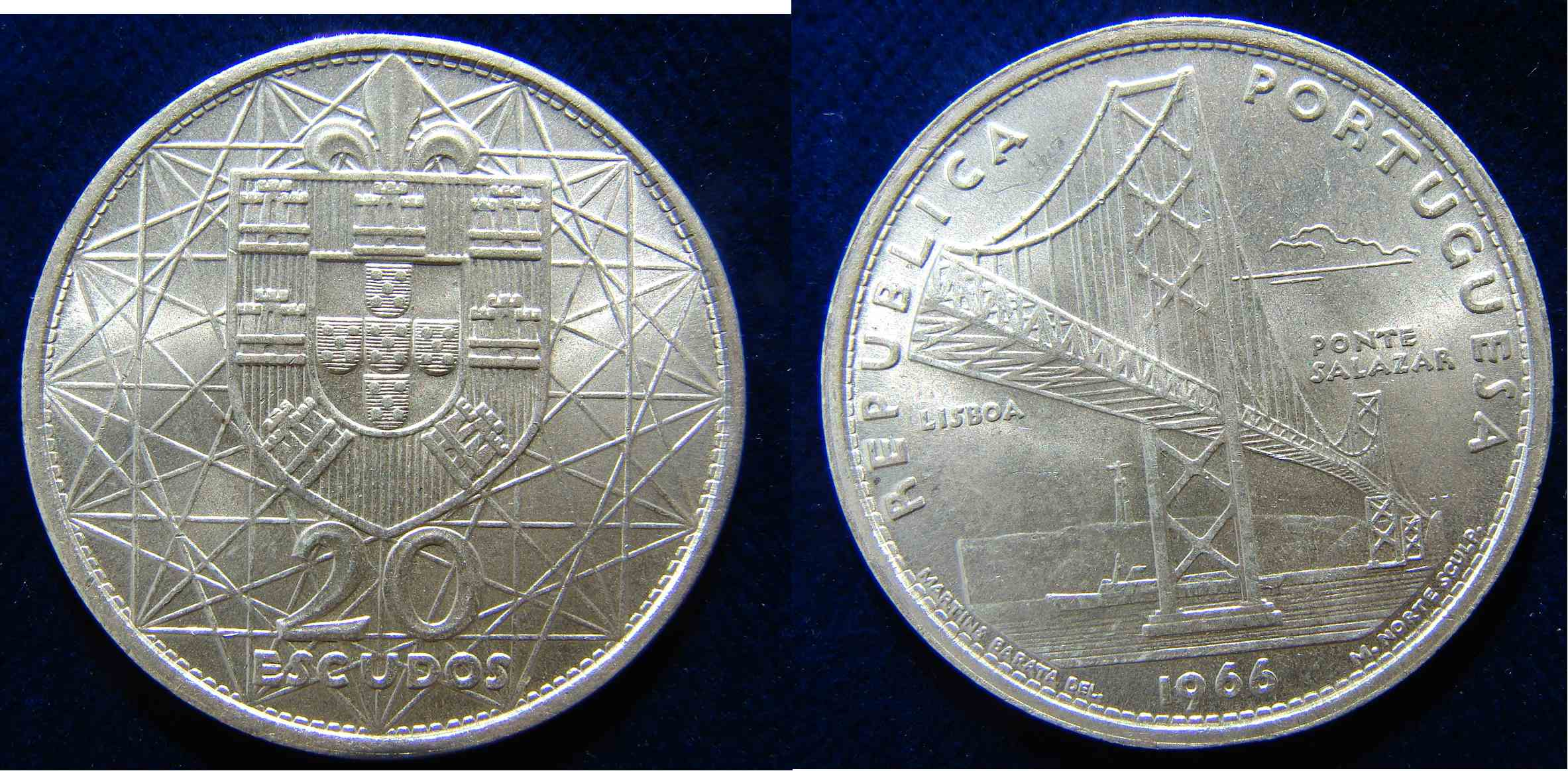 Opening of the Salazar Bridge 20 Escudos 1966 Portugal